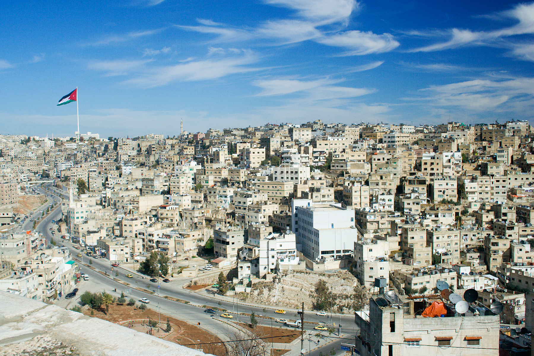 A view of Amman, Jordan from the Citadel atop Jabal al-Qal'a